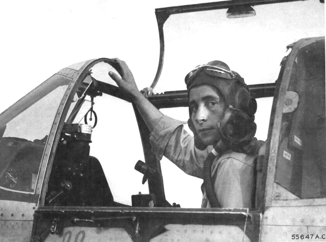 Captain John J. Voll of 308th FS, 31 FG onboard his P-51B Mustang